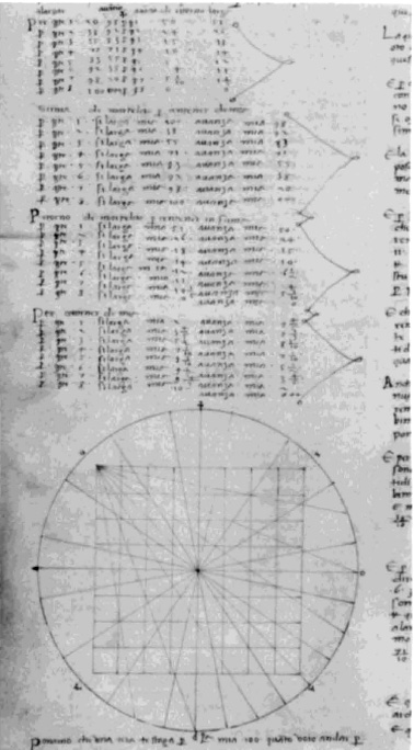 A "toleta de marteloio" (incl. tondo e quadro, a 8-ray circle-and-square), from page (p.47) of the Cornaro Atlas, an anonymous Venetian atlas from c.1489. Held (Egerton MS.73) by the British Library in London.